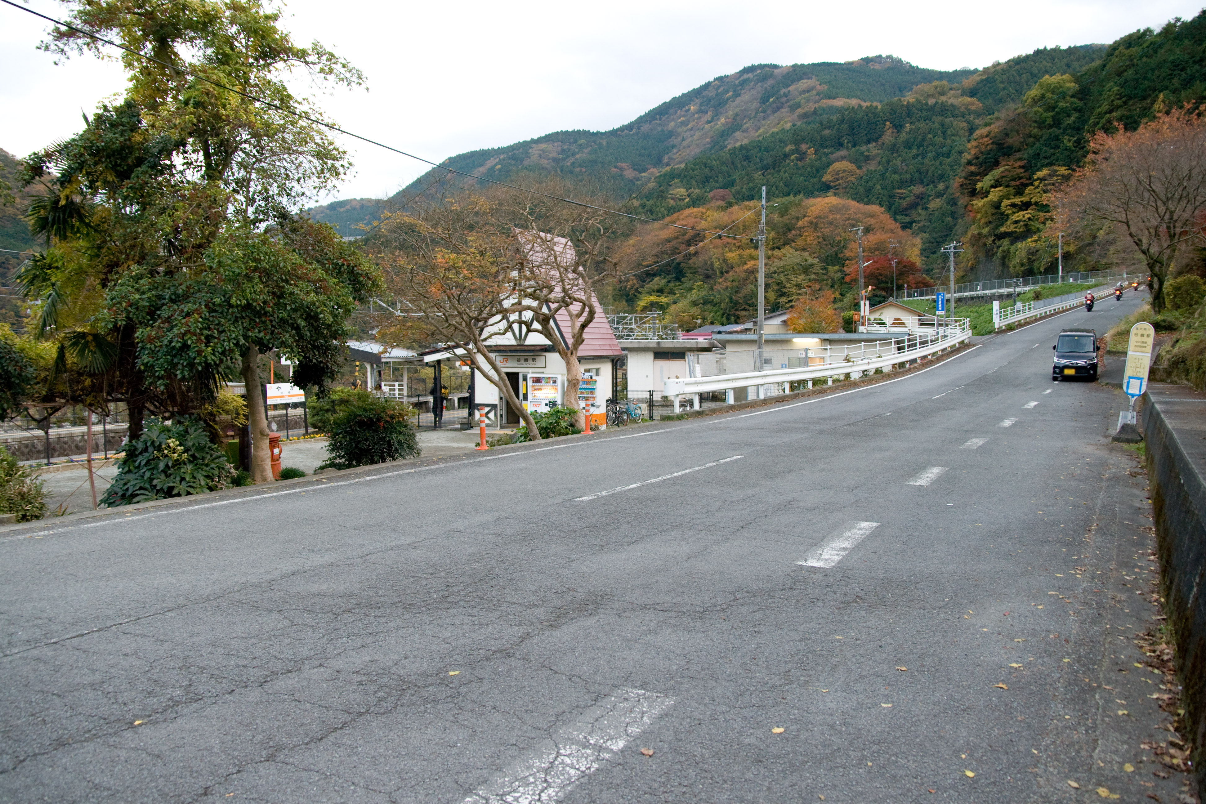 Yaga Station in Yamakita town, Kanagawa Prefecture, Japan.